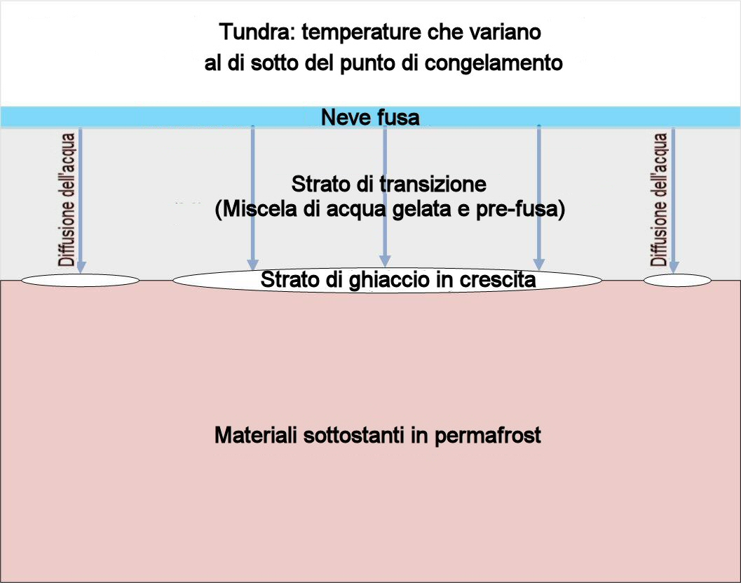 For use with an article being written on ice lenses. ::*Dash2006 - Dash, G.,; A. W. Rempel, J. S. Wettlaufer (2006). "The physics of premelted ice and its geophysical consequences". Rev. Mod. Phys. 78 (695). American Physical Society. Retrieved on 30 November 2009. ::*Murton2006 - Murton, Julian B.; Peterson, Rorik & Ozouf, Jean-Claude (17 November 2006). "Bedrock Fracture by Ice Segregation in Cold Regions". Science 314 (5802): 1127 - 1129. Retrieved on 30 November 2009. ::*Rempel2007 - Rempel, A.W. (2007). "Formation of ice lenses and frost heave". Journal of Geophysical Research 112 (F02S21). American Geophysical Union. Retrieved on 30 November 2009. ::*Rempel2008 – Rempel, A. W. (2008). "A theory for ice-till interactions and sediment entrainment beneath glaciers". Journal of Geophysical Research: F01013. American Geophysical Union.. Retrieved on 30 November 2009. ::*Peterson2008 - Peterson, R. A.,; Krantz , W. B. (2008). "Differential frost heave model for patterned ground formation: Corroboration with observations along a North American arctic transect". Journal of Geophysical Research 113: G03S04. American Geophysical Union.. Retrieved on 30 November 2009., ::*Walder1985 - Walder, Joseph; Hallet, Bernard (March 1985). "A theoretical model of the fracture of rock during freezing". Geological Society of America Bulletin 96 (3): 336-346. Geological Society of America.. 10.1130/0016-7606(1985)96 2.0.CO;2. Retrieved on 30 November 2009.